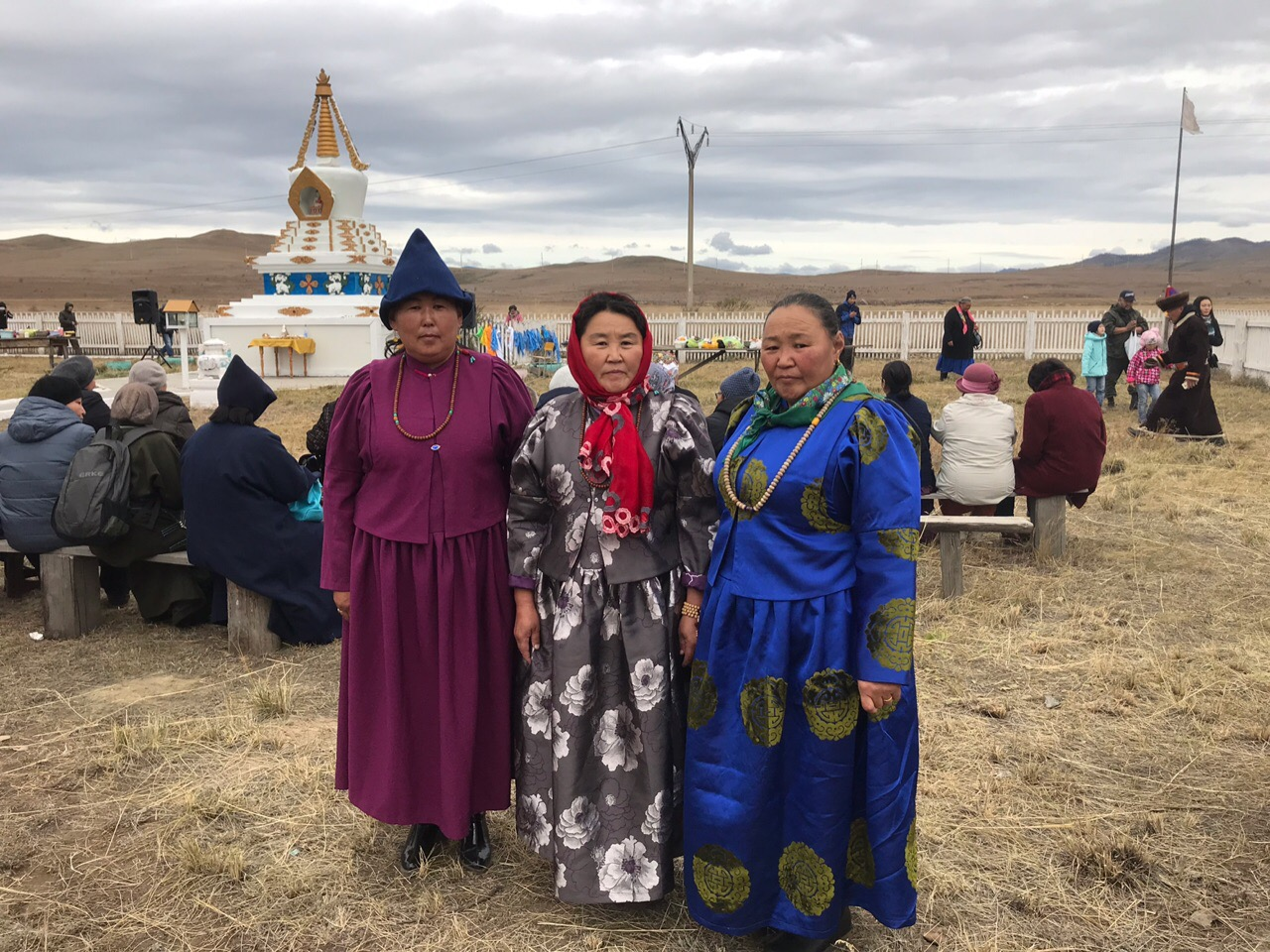 Hamnigans in Buryatia